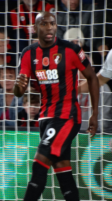 Benik Afobe in action for Bournemouth